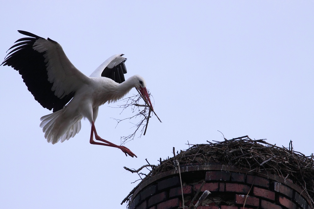 White Stork